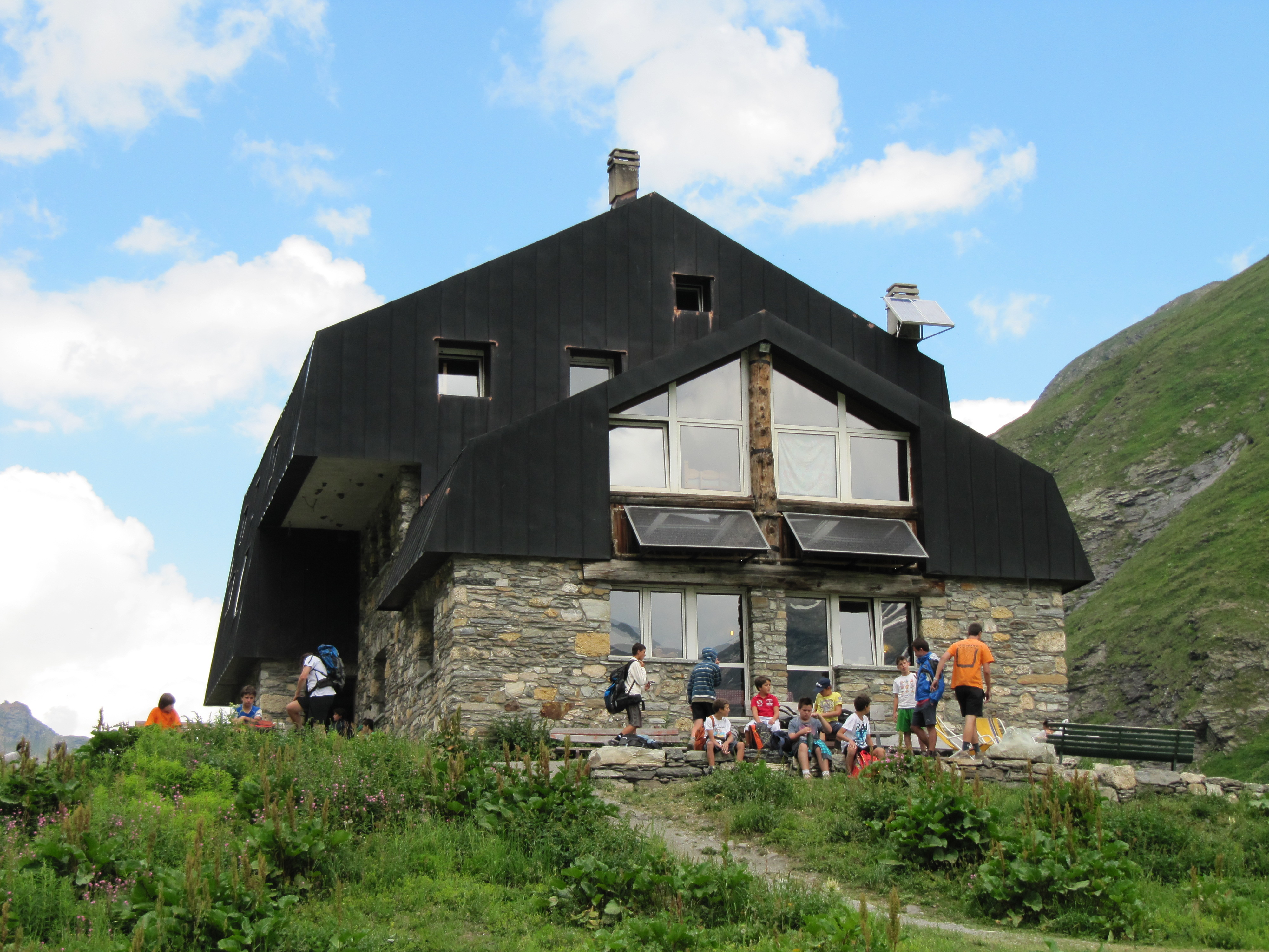 Rifugio Mario Bezzi Valgrisenche - mountain hut in the Valle d' Aosta